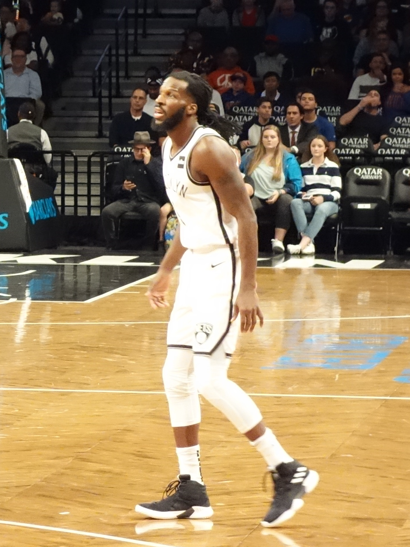 Brooklyn Nets forward DeMarre Carroll during the first quarter of the NBA Preseason game between the Brooklyn Nets and the New York Knicks at the Barclays Center on October 3, 2018.